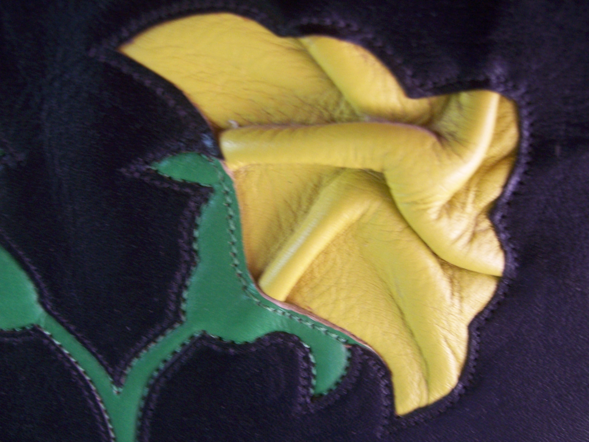 closeup of yellow rose design on leather cowboy boot